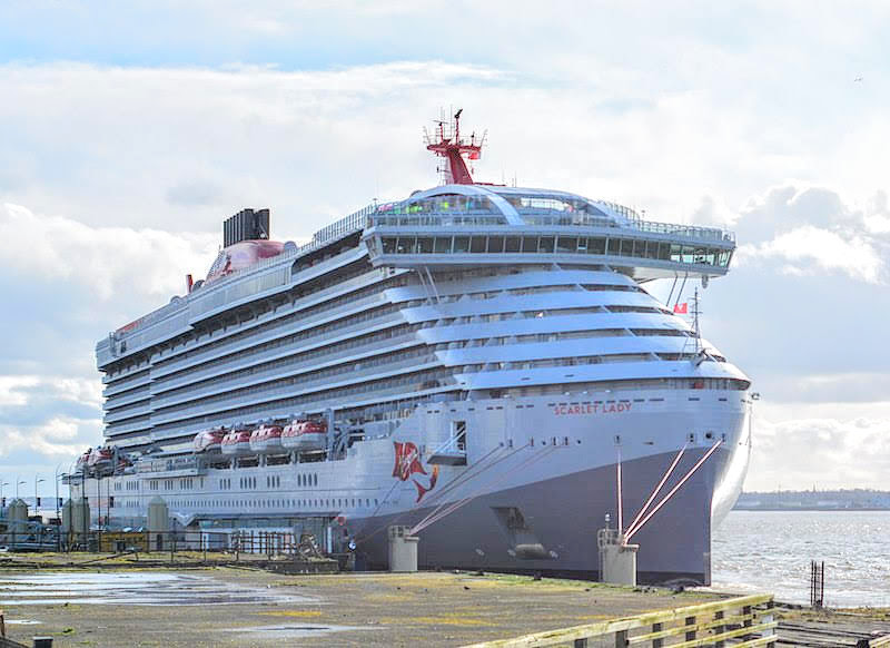 Scarlet Lady on the River Mersey, Liverpool, England, UK Taken on 25 February 2020